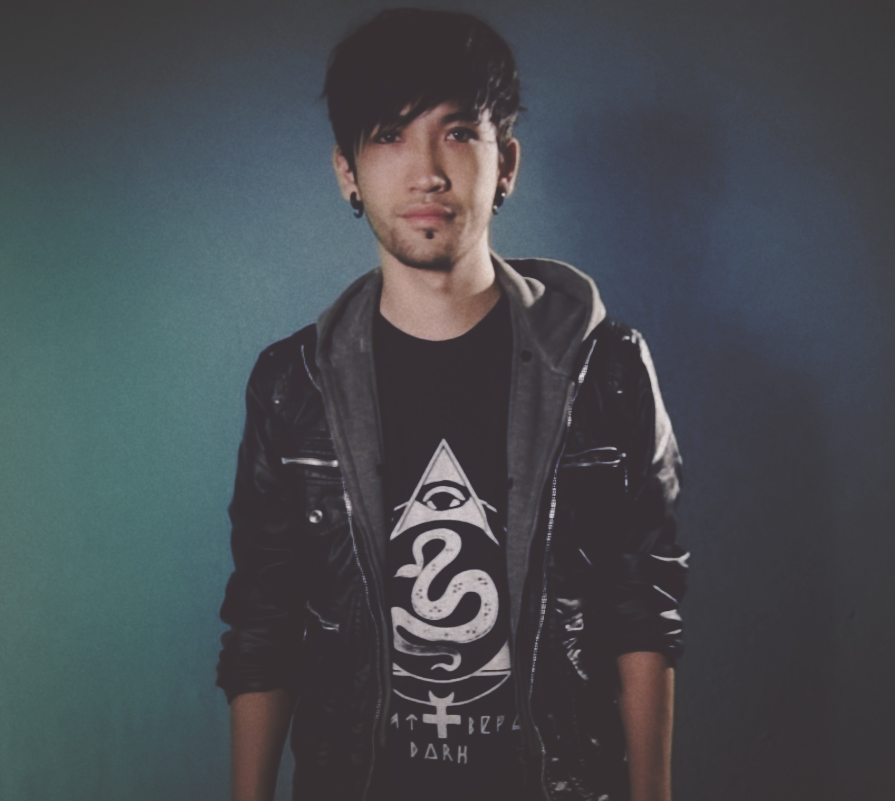 photo of mike diva. Copyright mike diva 2013